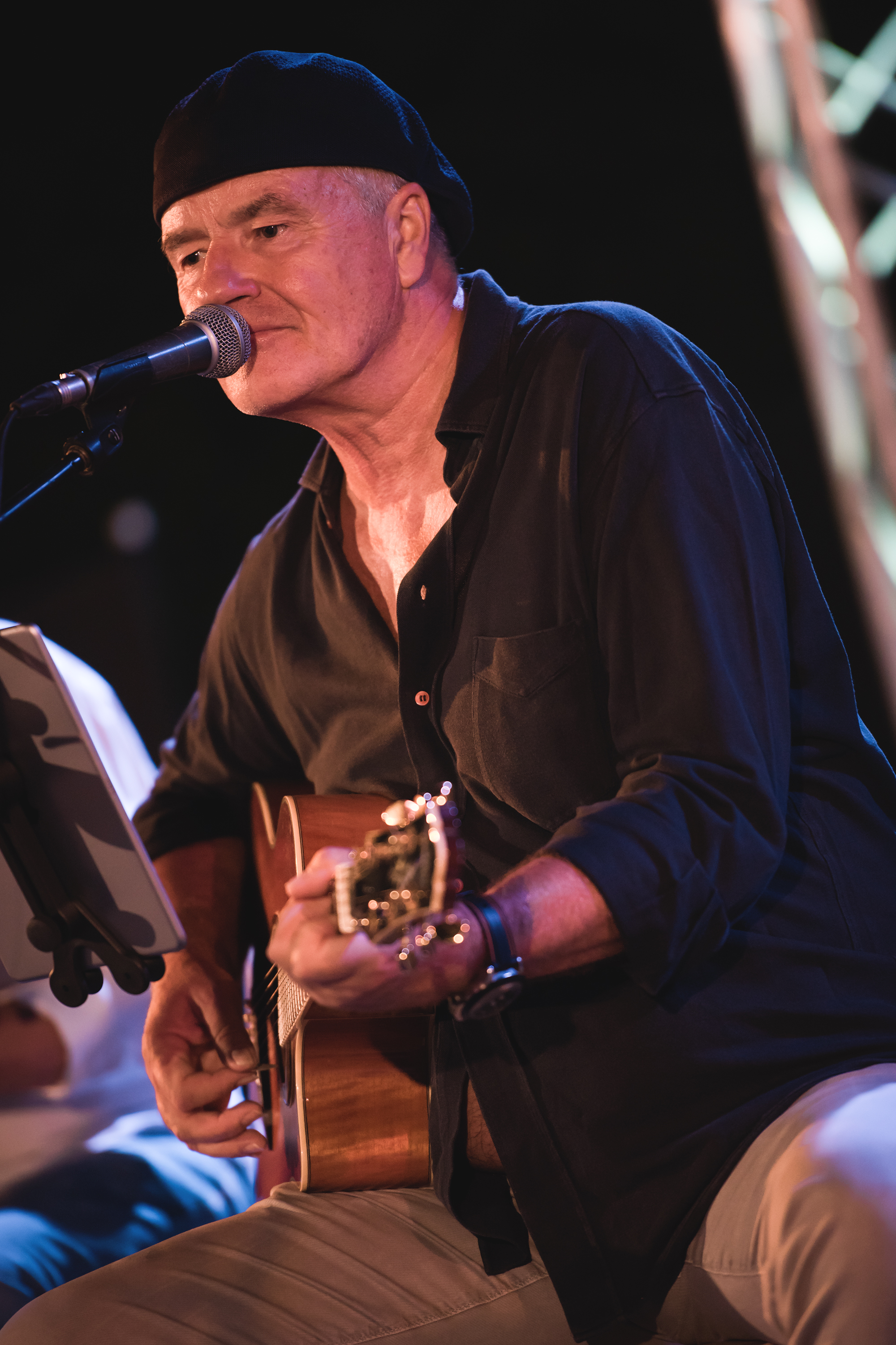 Rick Hutton (Liverpool, 1953), television presenter, radio presenter and musician during a concert at Le Pavoniere in Florence, Italy (17/07/2017).